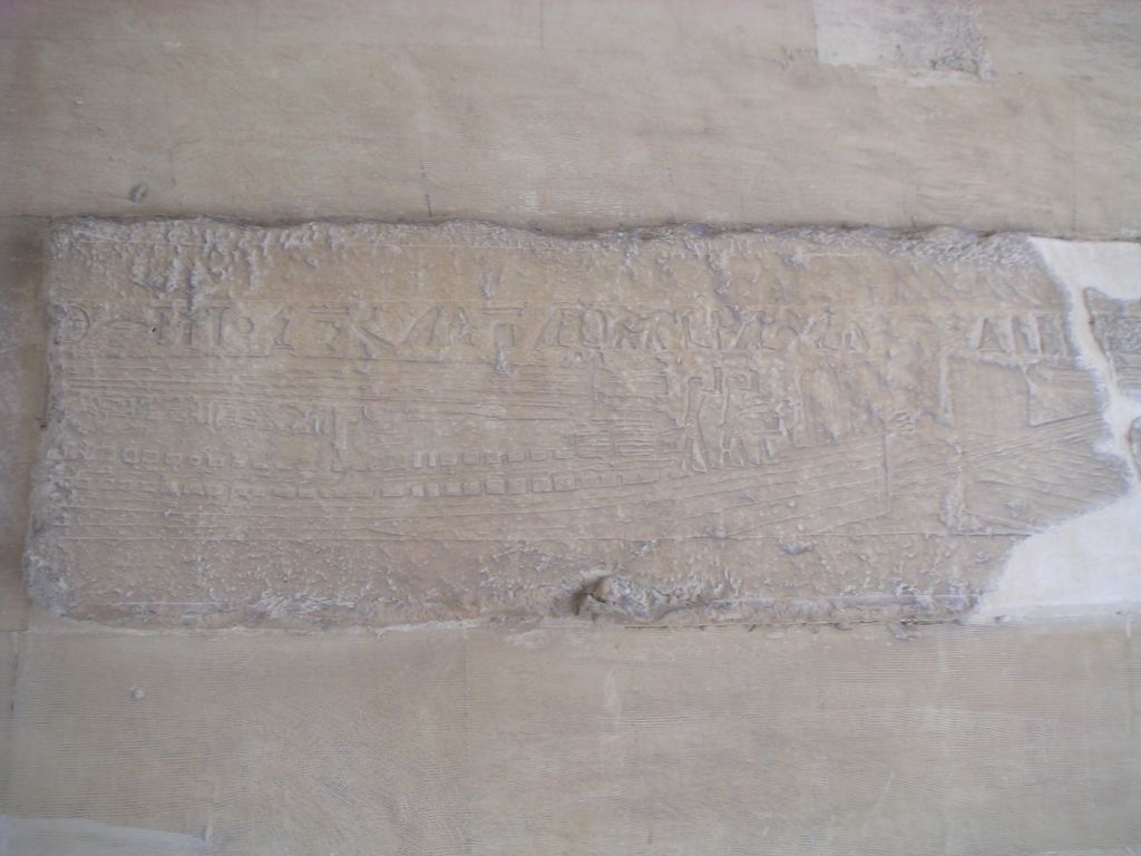 Transporting monolithic blocks on a ship